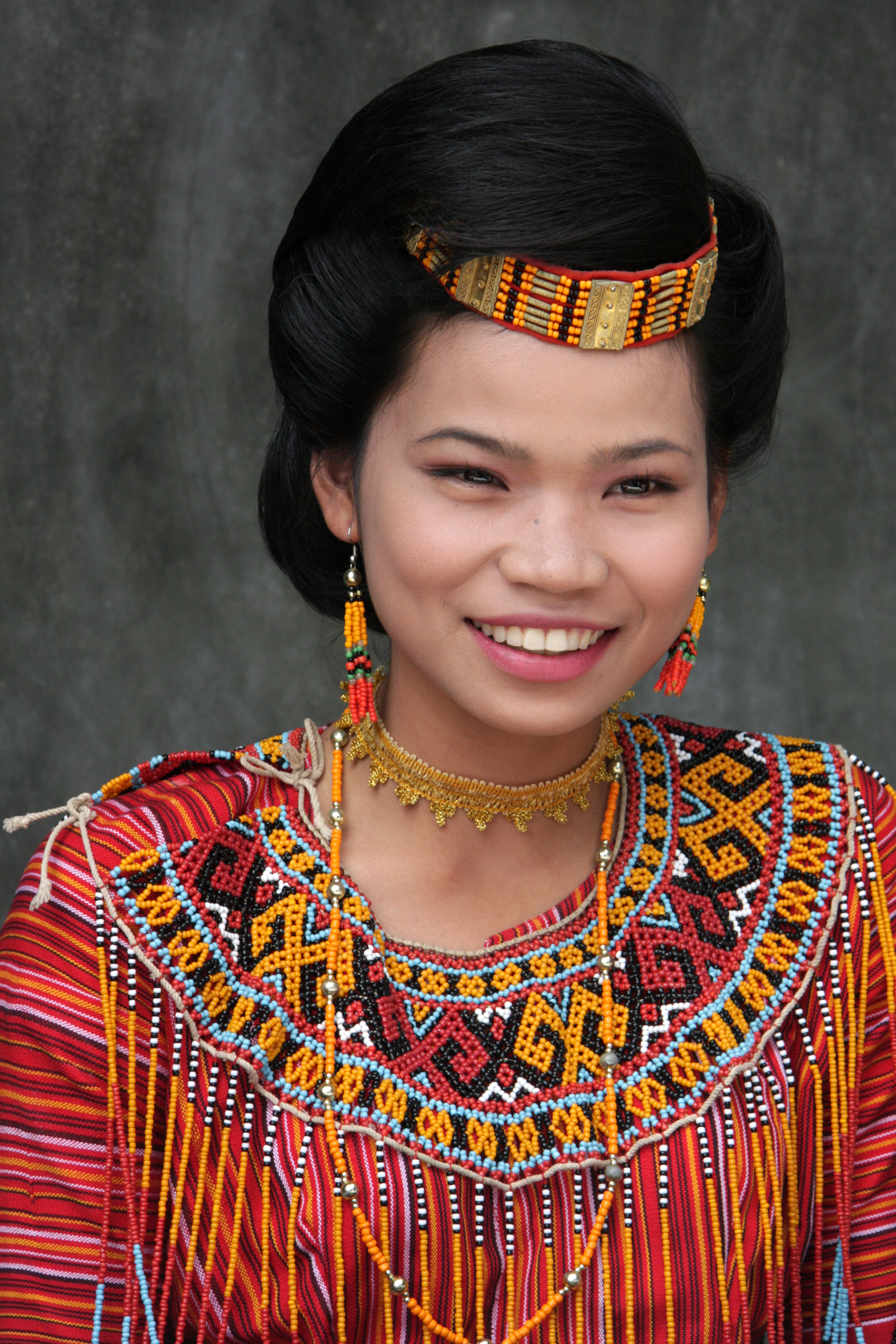 girl Toraja in Sulawesy at the entry of a wedding